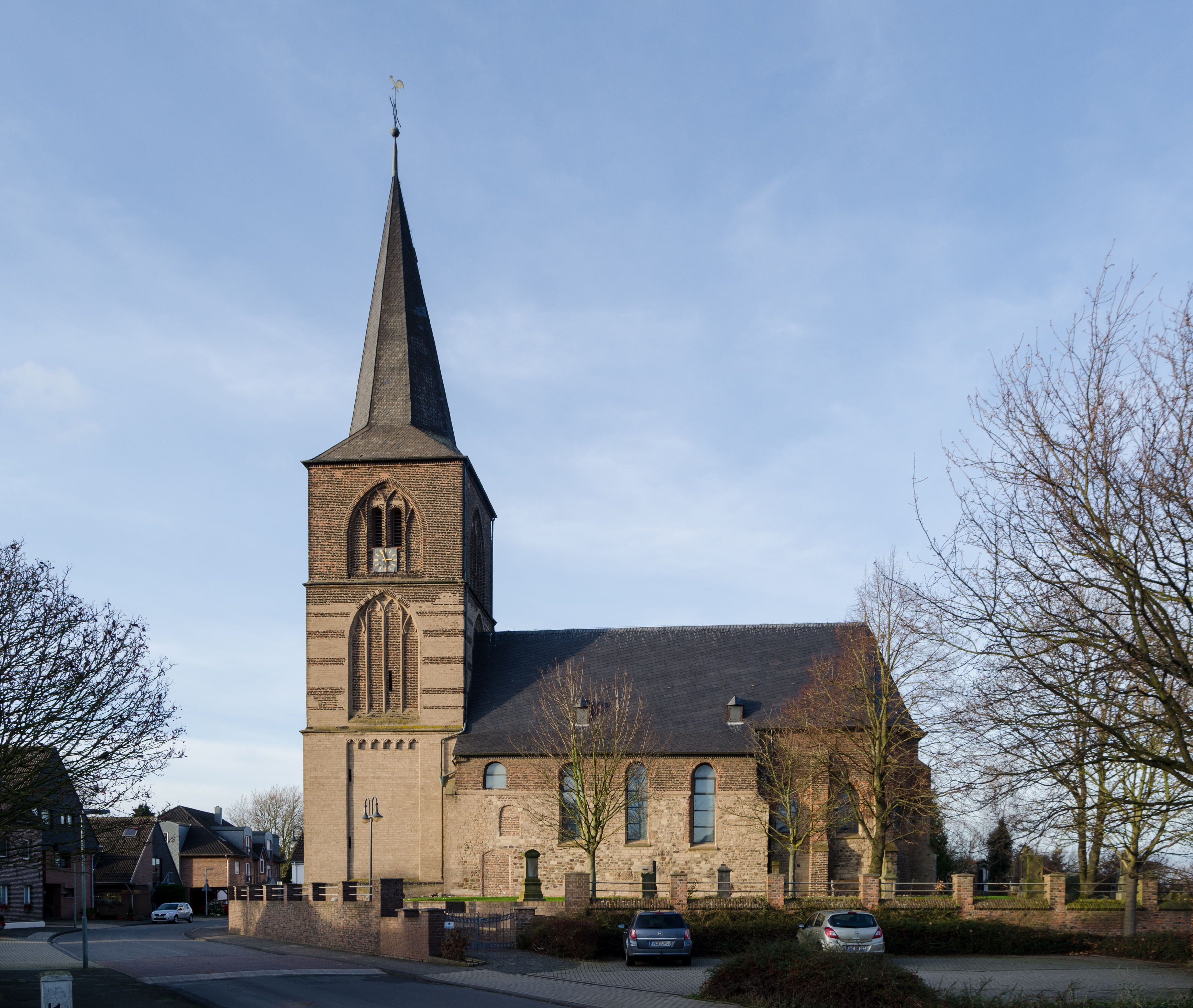 Rheinberg (North Rhine-Westphalia, Germany) – district Budberg – Protestant Church